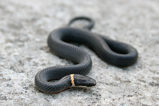 A Diadophis punctatus edwardsii on Goat Island, Niagara Falls State Park.